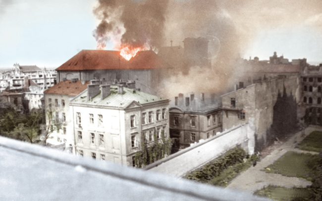 Warsaw Uprising: Burning Holy Cross Church on Krakowskie Przedmieście street, viewed from roofs of apartments at Czackiego street. Photo was colorized.